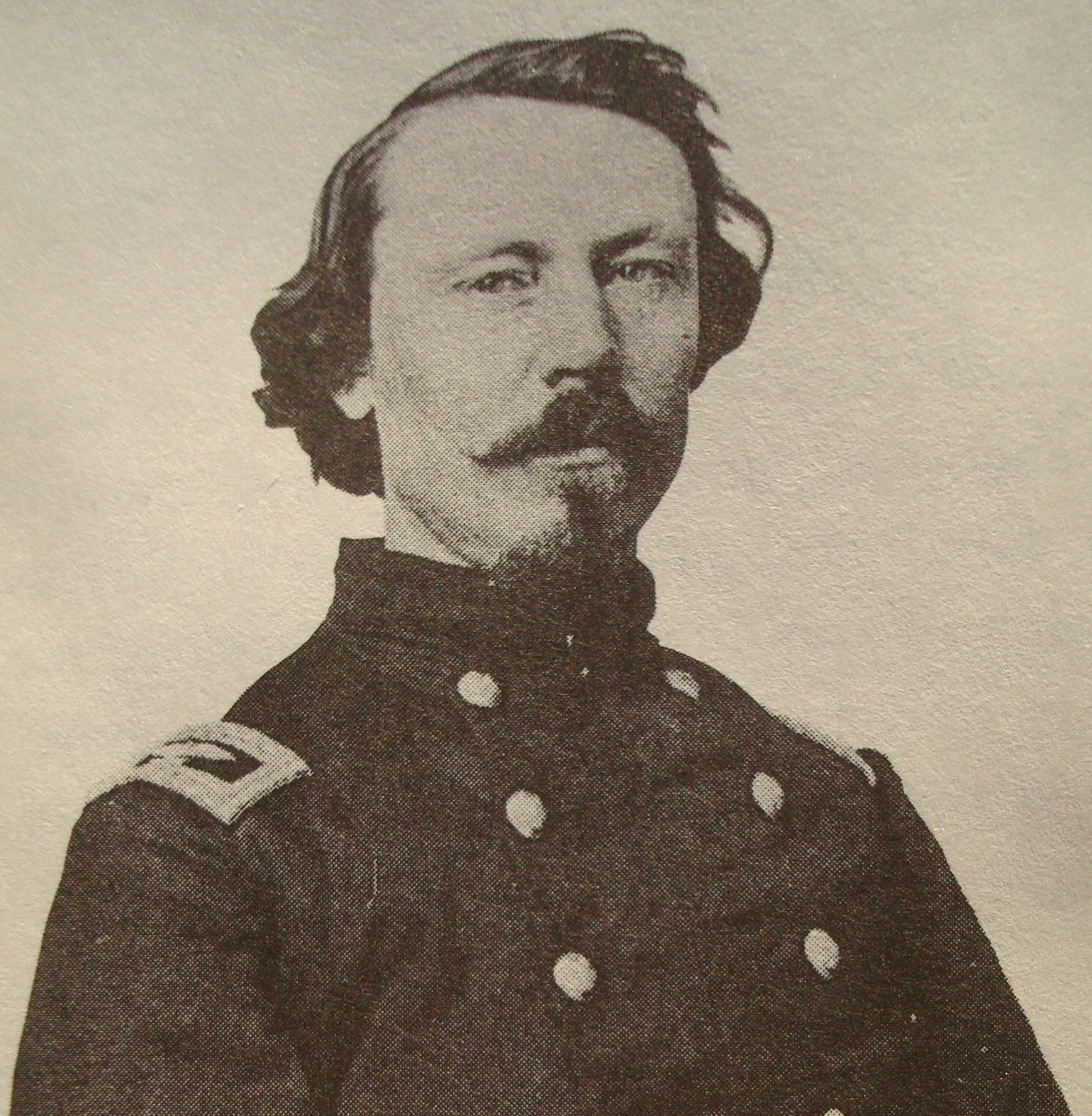 Photograph of Civil War officer, Colonel Patrick E. Burke of St Louis. On August 10, 1861 he commanded Company K, 1st Missouri Volunteers, on Bloody Hill, at the Battle of Wilson's Creek. From June of 1862, he commanded the elite "Western Sharpshooters-14th Missouri Volunteers"/"66th Illinois Volunteer Infantry Regiment (Western Sharpshooters)". Also commanded 2nd Brigade, 2nd Div, XVI Army Corps, Army of the Tennessee. Mortally wounded at battle of Rome Cross Roads, GA, Mar 16, 1864.